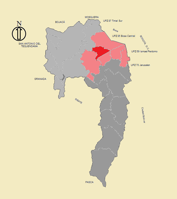 Commune 2 Soacha Central map, Municipality of Soacha (department of Cundinamarca, Colombia)